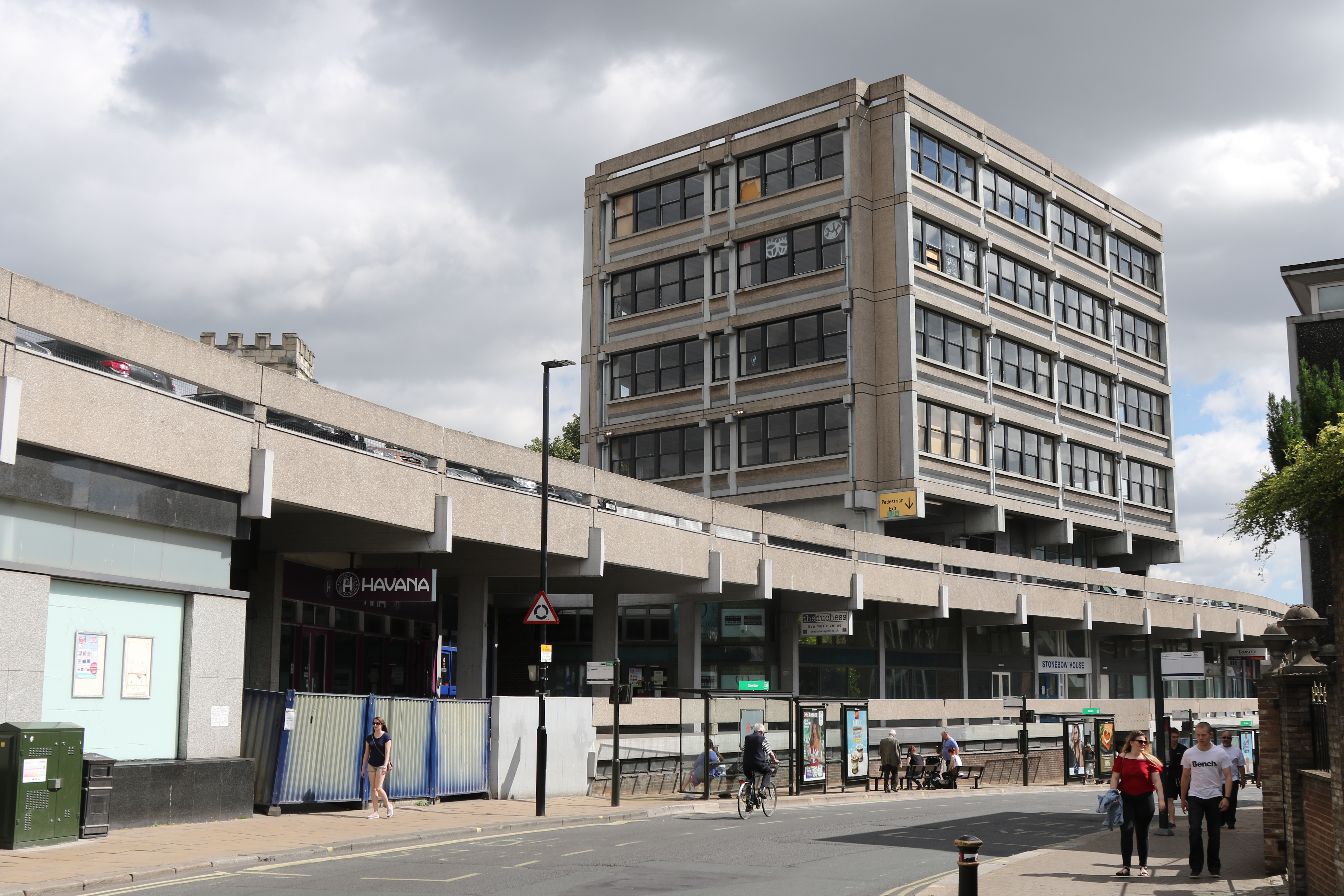 Stonebow House, York by Wells, Hickman and Partners, completed in 1965.